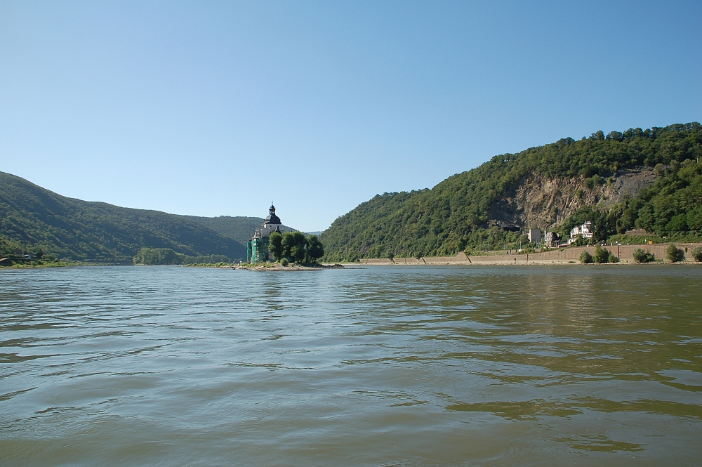 Burg Pfalzgrafenstein, Kaub, Germany